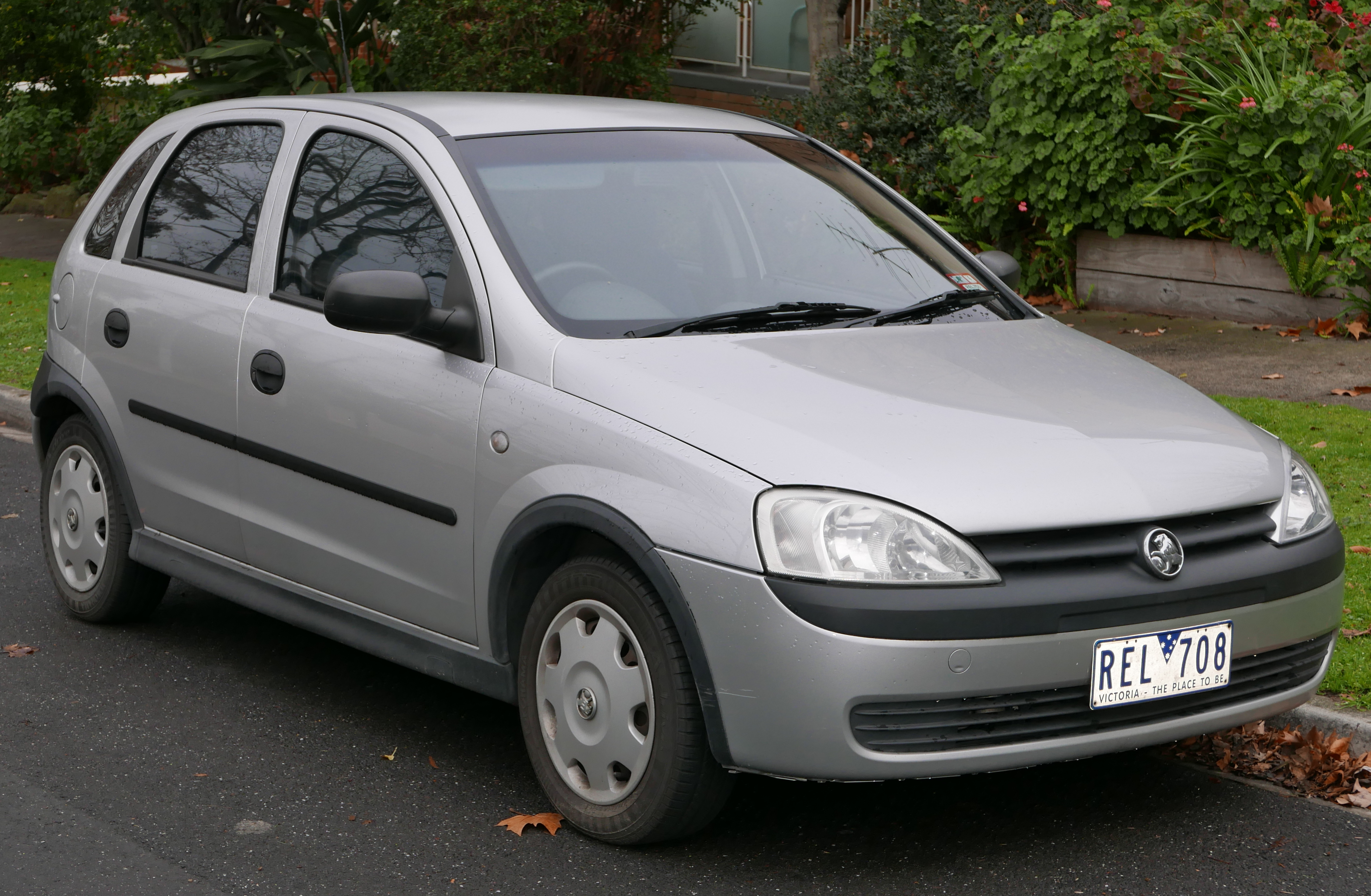 2001 Holden Barina (XC) 5-door hatchback. Photographed in Ivanhoe, Victoria, Australia. Vehicle registration enquiry resultsJurisdictionVictoriaRegistrationREL708Chassis codeW0L0XCF6814276386Engine codeZ14XE20U84447Compliance date2001-08Year of manufacture2001